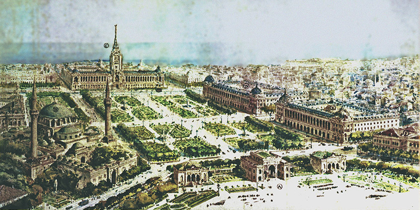 Bouvard plan for Beyazıt Square